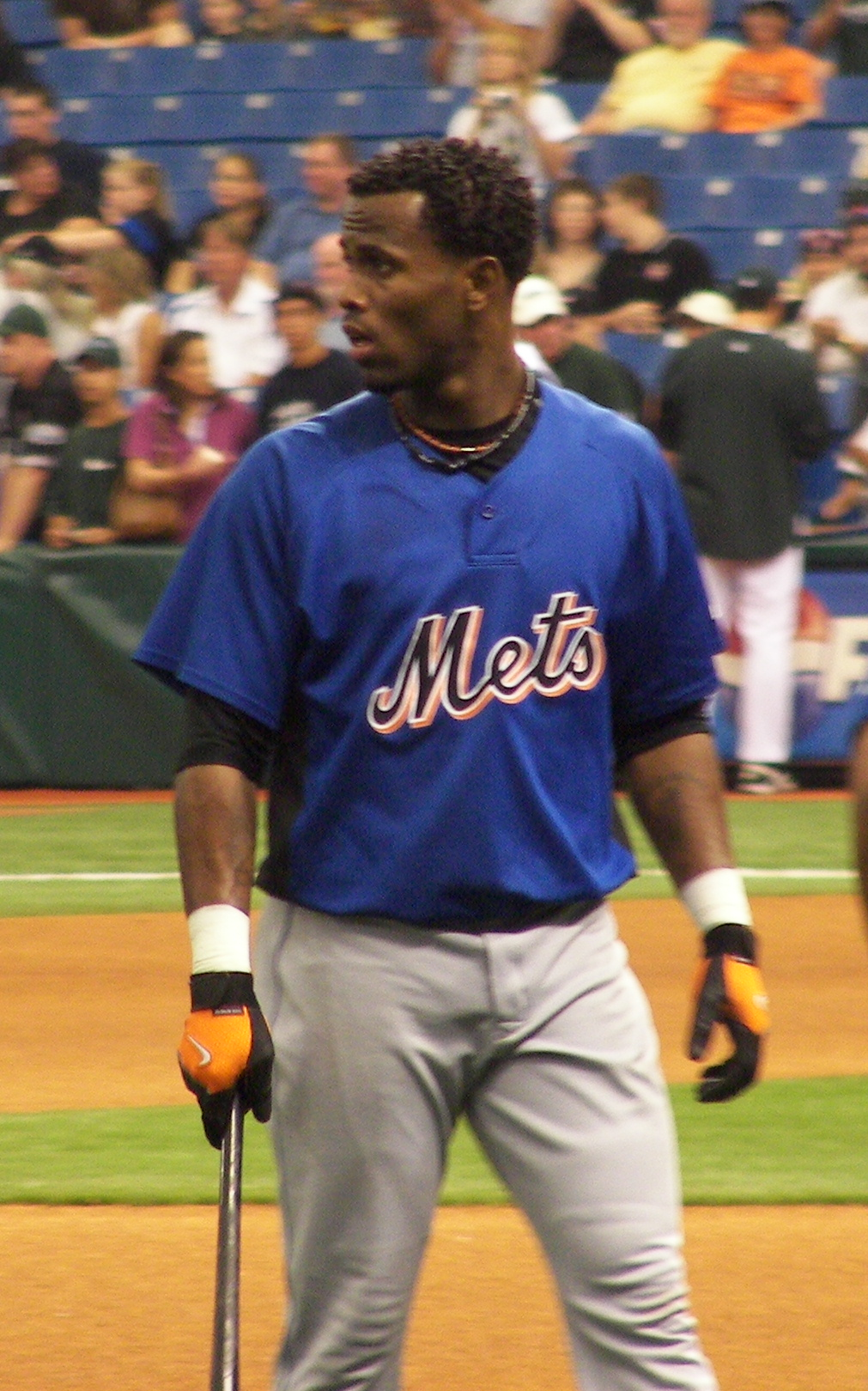 New York Mets shortstop José Reyes during a Mets/Devil Rays spring training game at Tropicana Field in St. Petersburg, Florida.